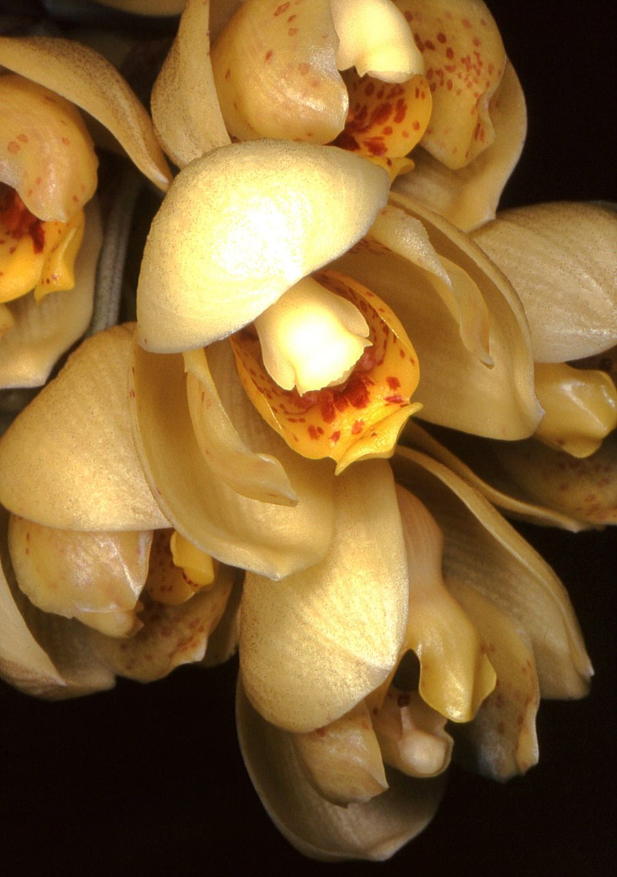 Acineta chrysantha